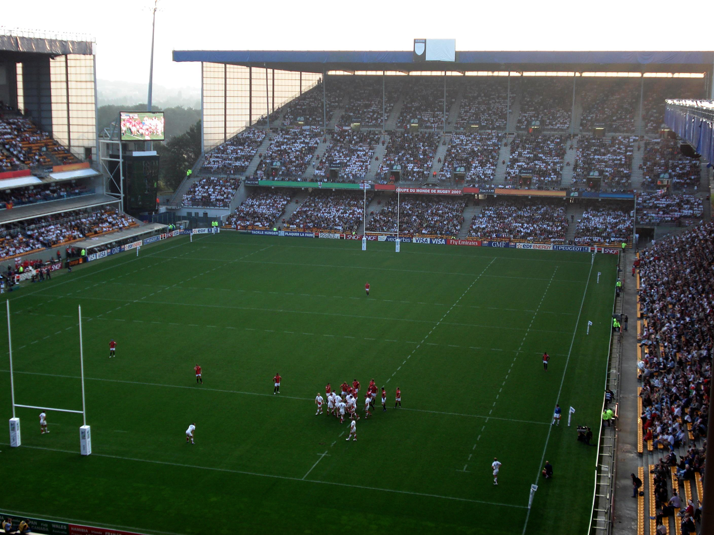 2007 Rugby World Cup England / USA (Bollaert Stadium, Lens, France)